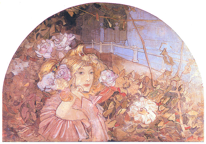 see source